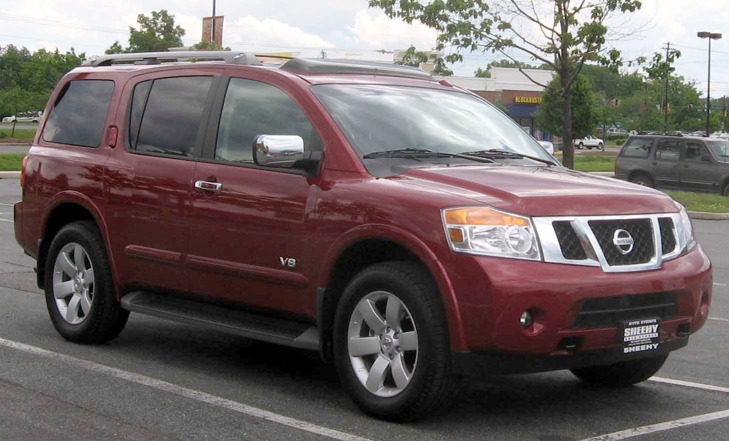 2008 Nissan Armada photographed in USA.